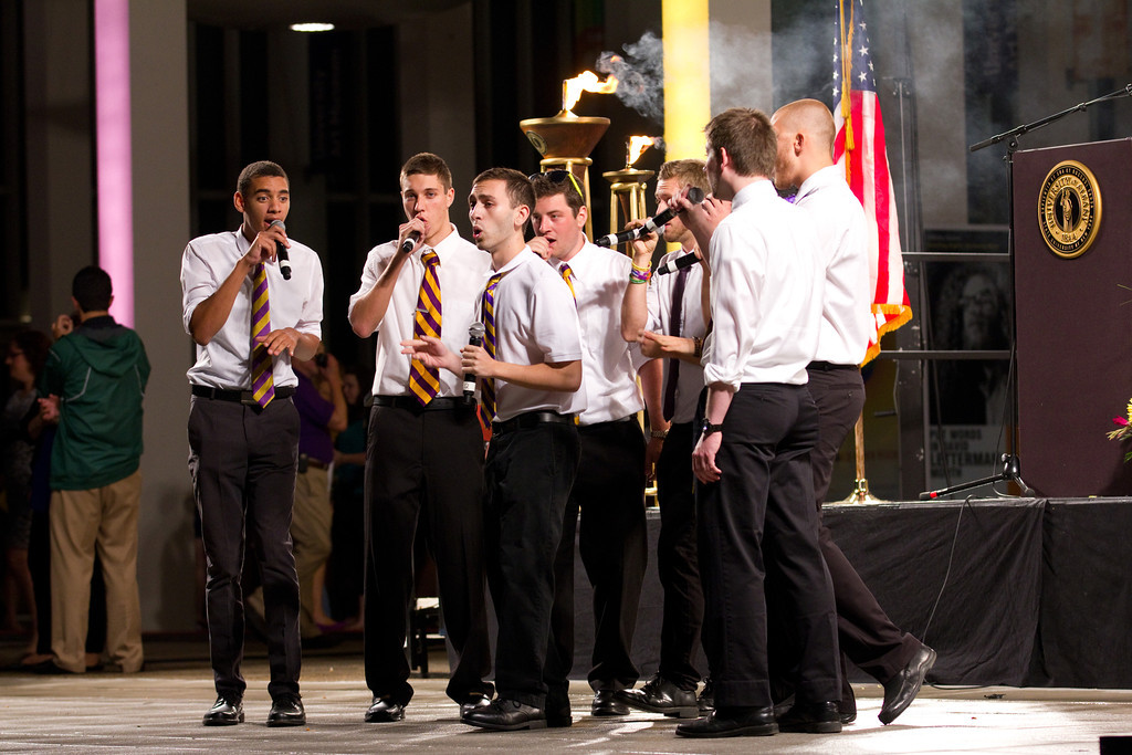 The Earth Tones are an all-male a cappella singing group at UAlbany